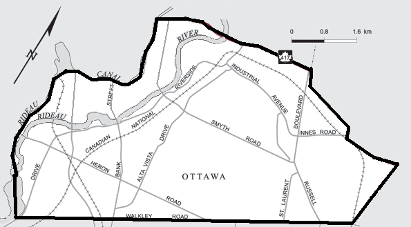 map of Ottawa South provincial electoral district (1986-c.1996?) adapted from Elections Canada maps.